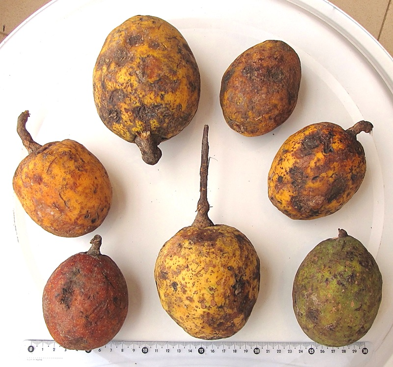 Ripe fruit from the Saba senegalensis tree, as sold in the market (called madd, also spelled mad ) the yellowish skins are ripe, the green-skinned fruit is unripe. Tough-skinned, the ripe fruit is cut open to remove the sections of yellow, edible fruit pulp that covers smooth, white seeds. Very tart fruit pulp, usually boiled with added sugar before eating. Scale shown in cm.